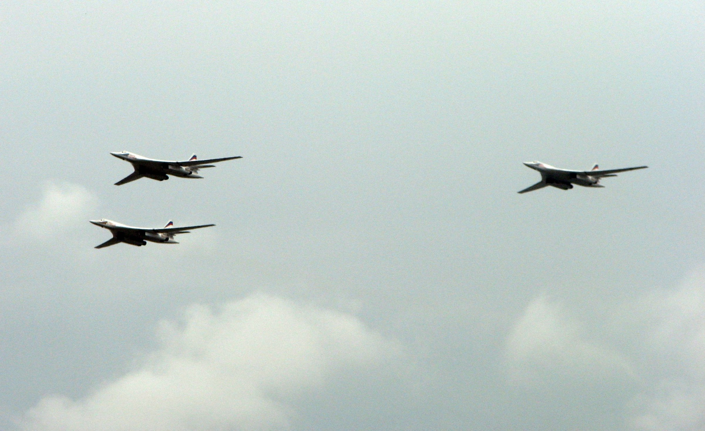 Tupolev Tu-160 bombers during the rehearsal for Victory Day Parade in Moscow on 9th May 2010.